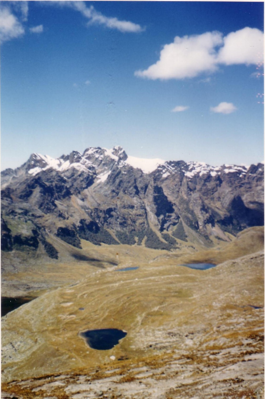 views of PN Huascaran